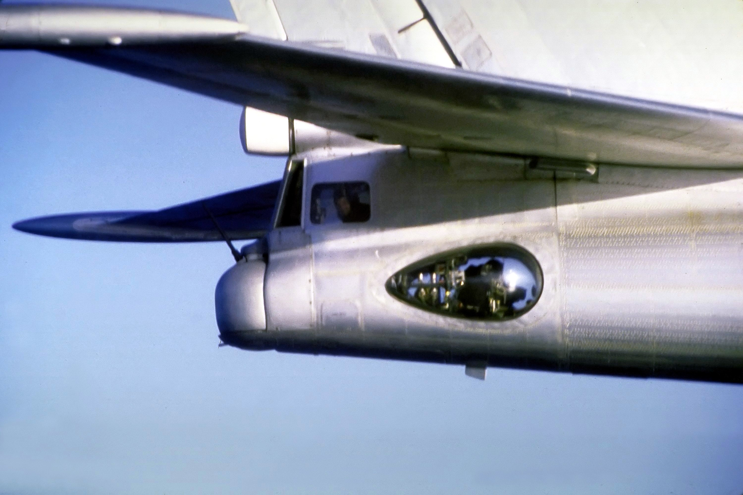 An air-to-air close-up view of a Tu-95 Bear aircraft tail showing the tail gunner and 23mm gun turret.